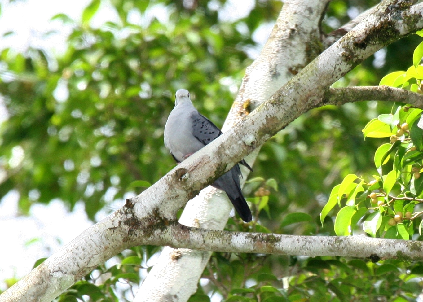 Blue Ground-dove (Claravis pretiosa) Dysmorodrepanis 20:25, 29 May 2008 (UTC)